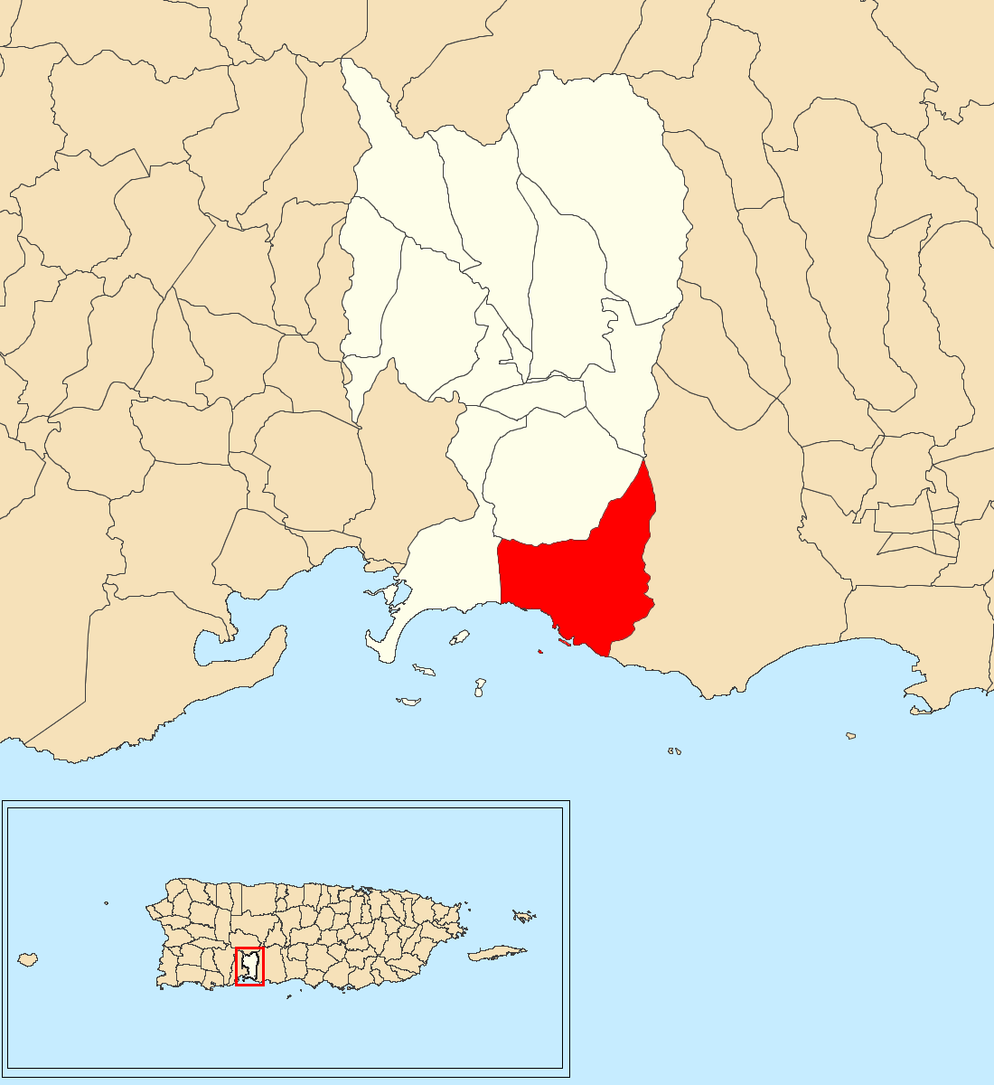 Encarnación, Peñuelas, Puerto Rico locator map